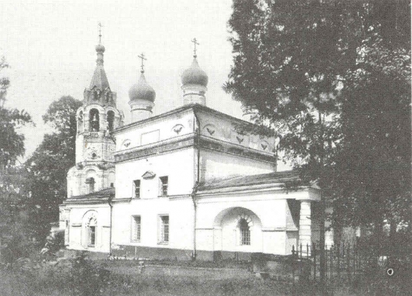 Church of Intercession of the Virgin in Bratzevo, Moscow